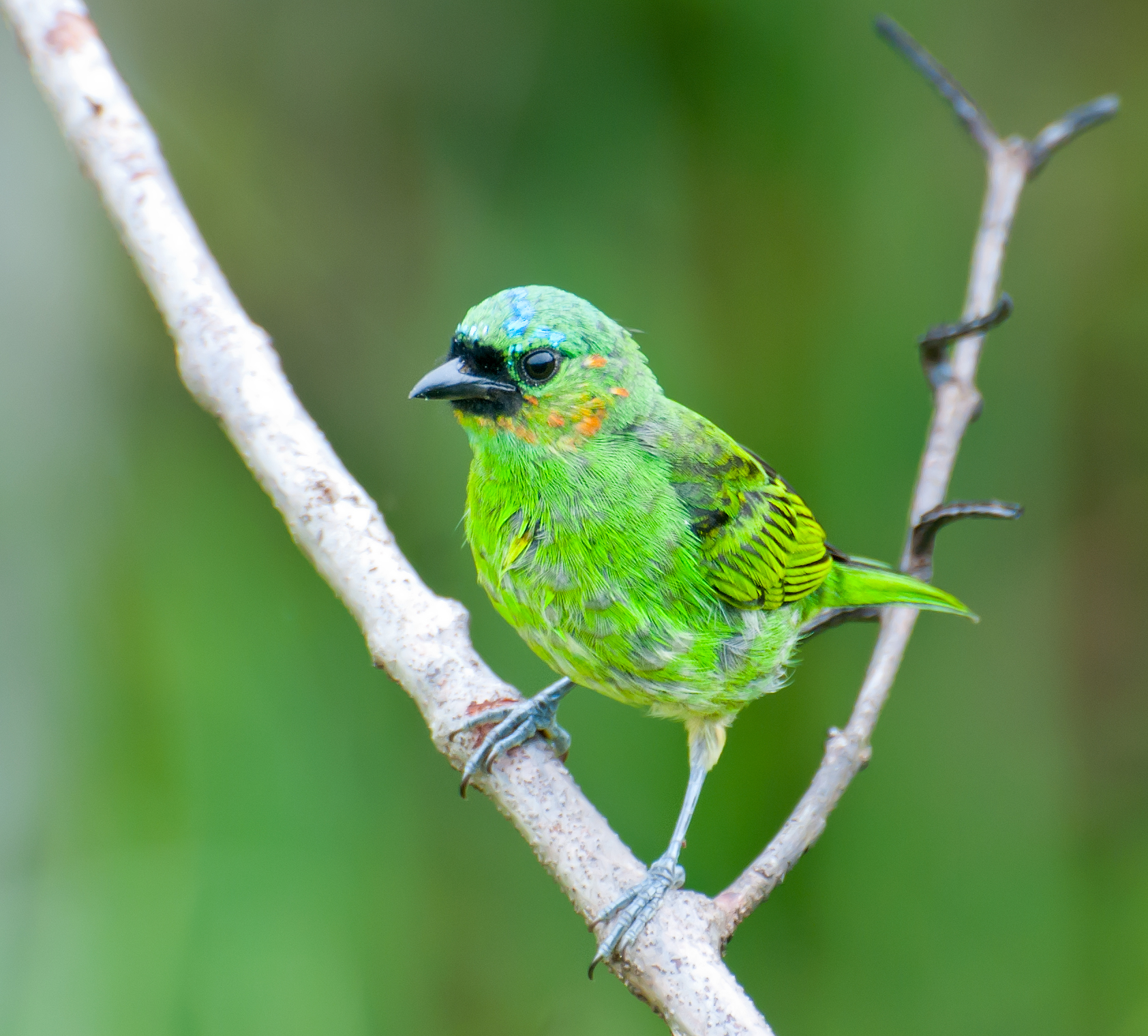 A juvenile Red-necked Tanager in Vale do Ribeira, Registro, Sao Paolo, Brazil.